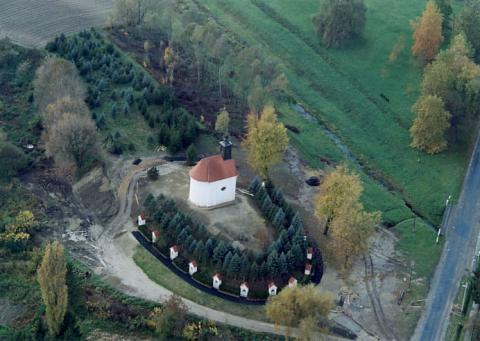 Búcsúszentlászló, Hungary, aerial photography This is a photo of a monument in Hungary. Identifier: 10792